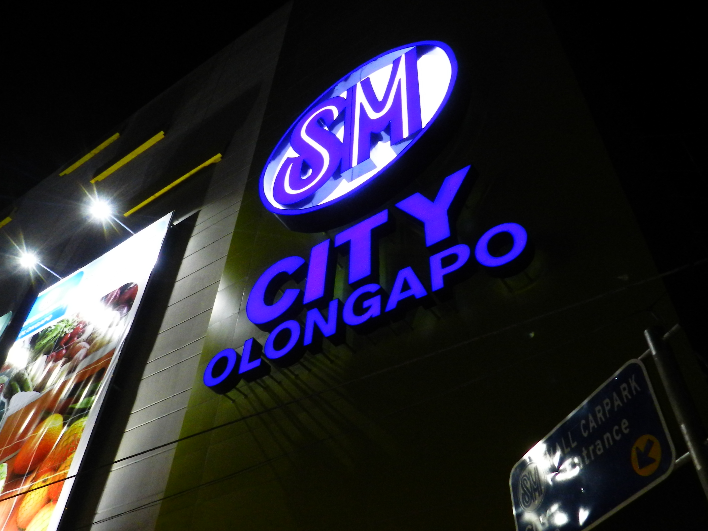 SM City Olongapo at night.